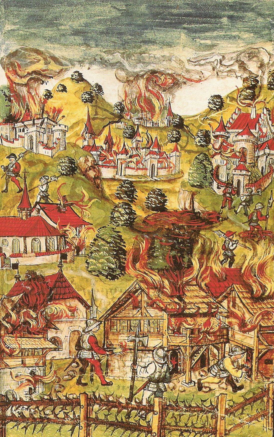 Scenes of looting and burning by the swiss troops deployed in the land of Vaud.